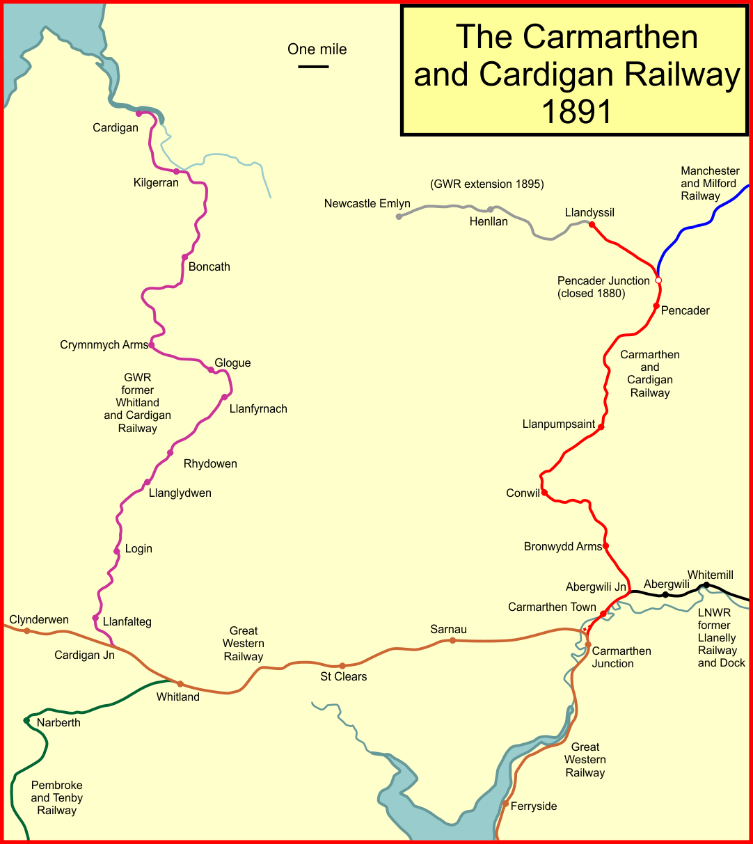 System map of the Carmarthen and Cardigan Railway, Wales, in 1890